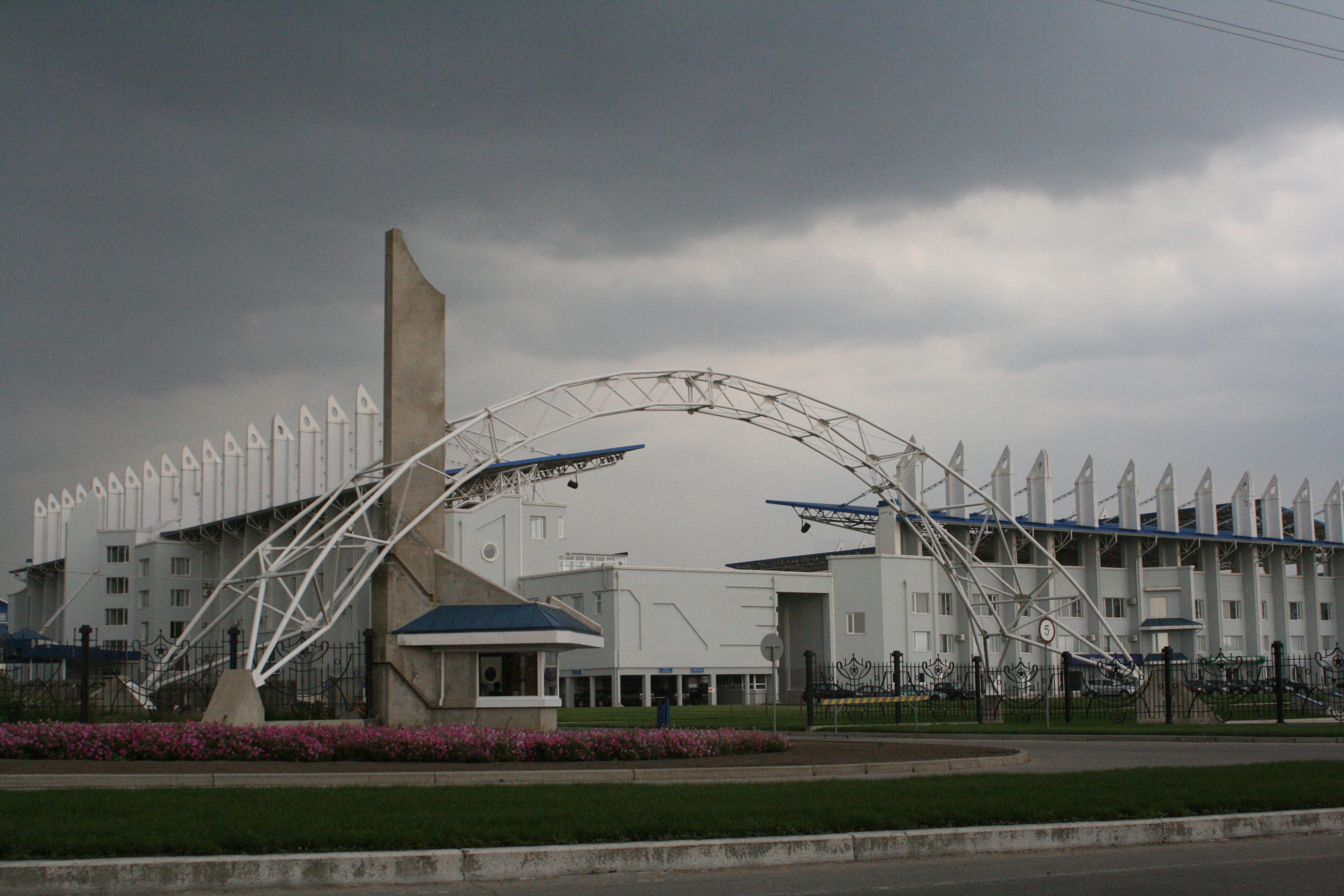 Stadion in Tiraspol Transnistria